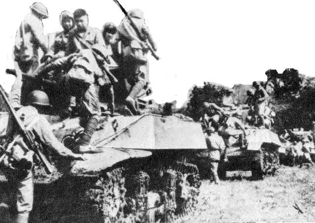 TANK CORPS IN ADVANCE TO THE FRONT